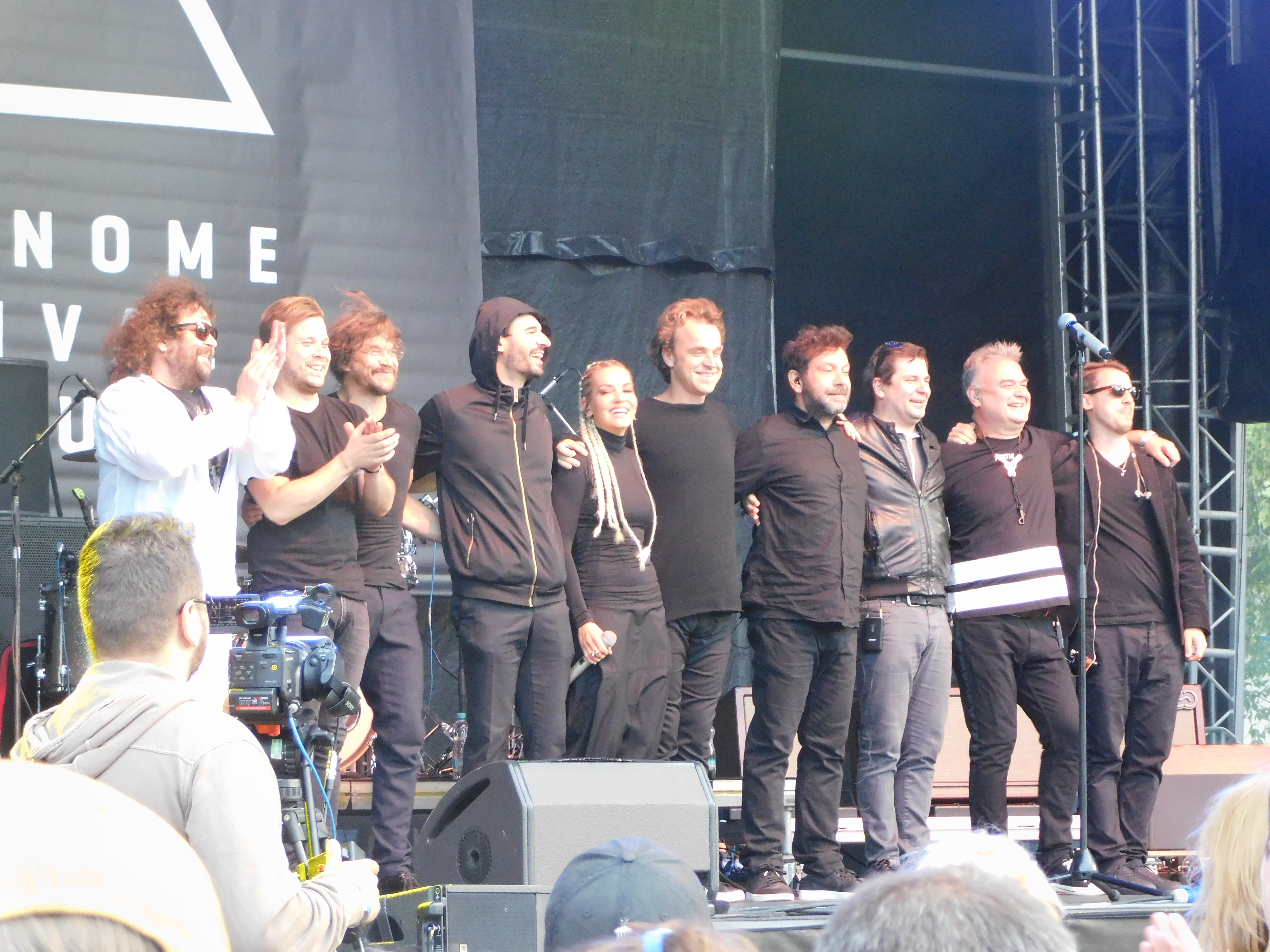 Sexy Dancers at Metronome Festival Prague 2018